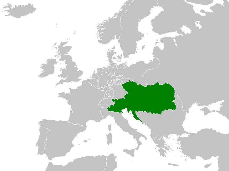 A map of Europe in the mid-19th century featuring the Austrian Empire.